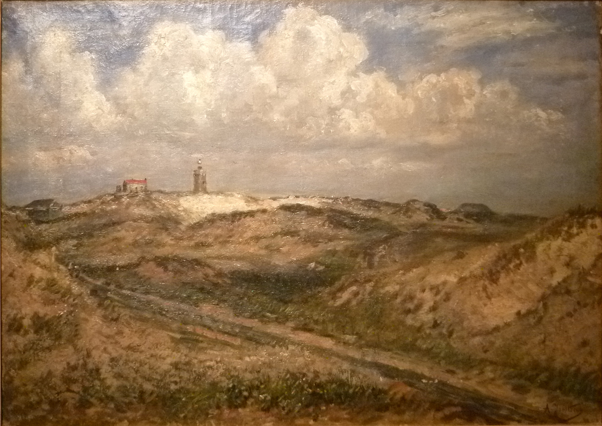 "Path through the dunes" (Knocke); oil on canvas (54 x 79 cm) by the Belgian painter Antoon Joostens; private collection